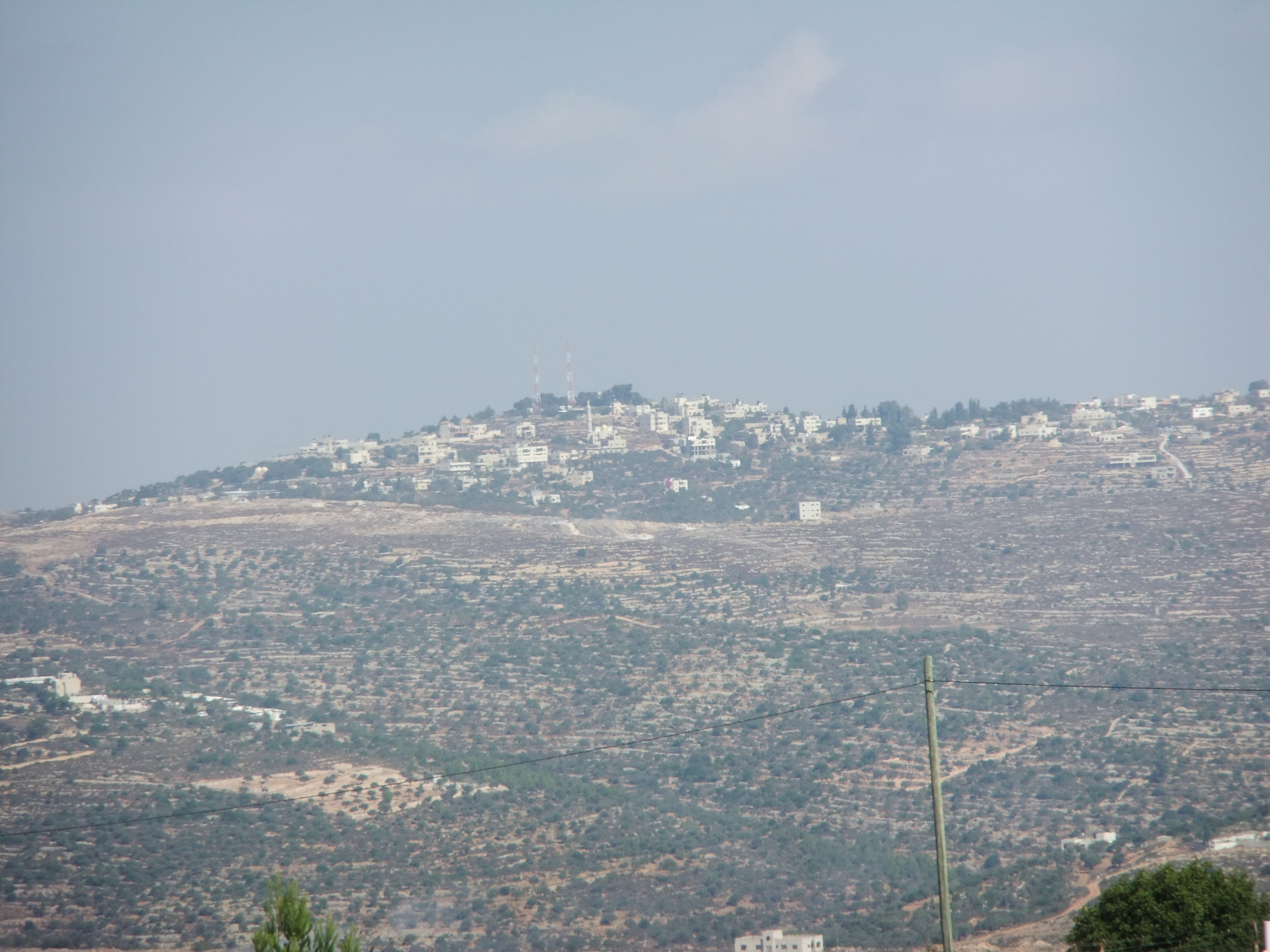 Atara viewed from the south. Taken from the Artis